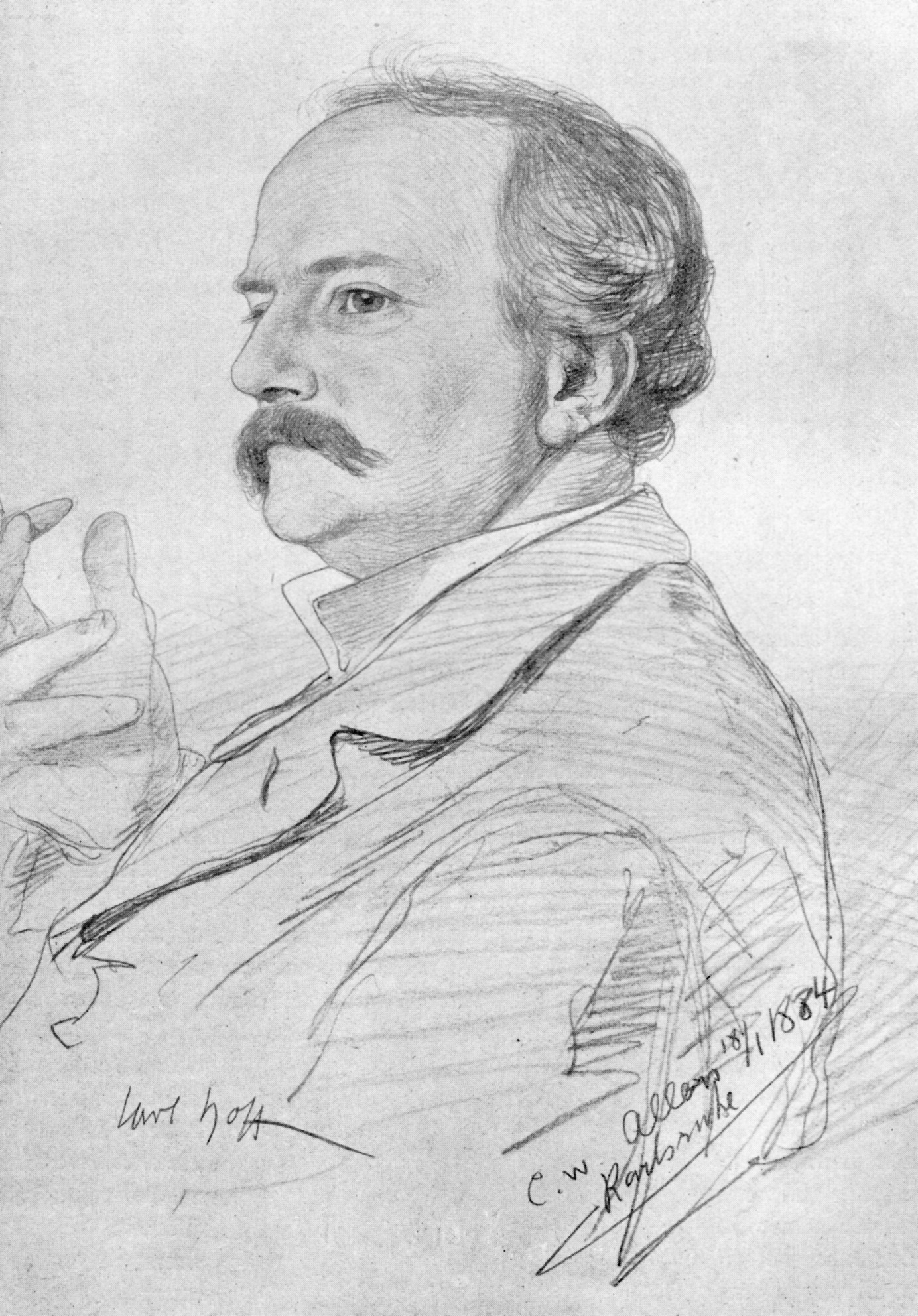 Karl Hoff (Carl Hoff), German painter